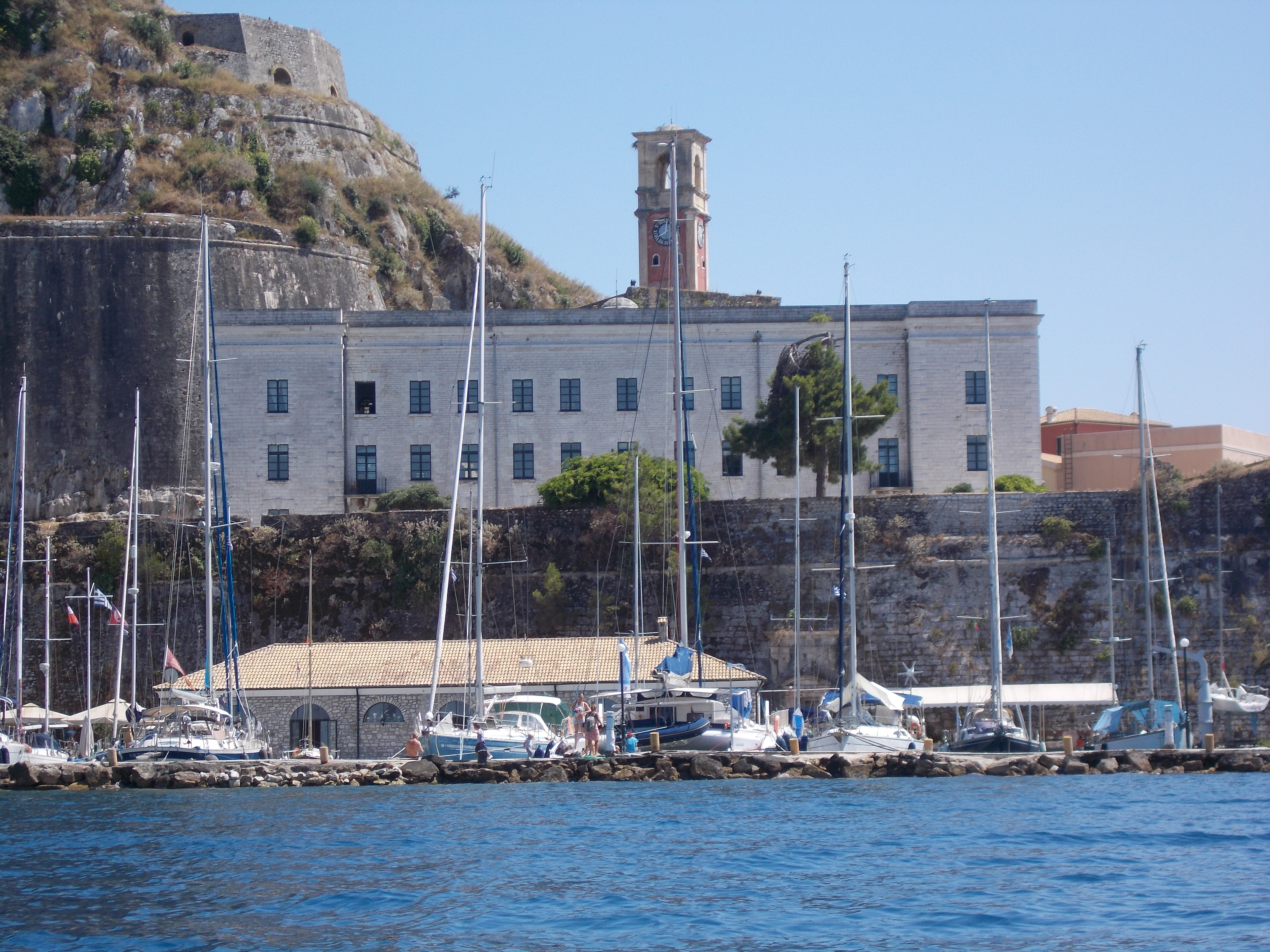 Ionian University Music Laboratory